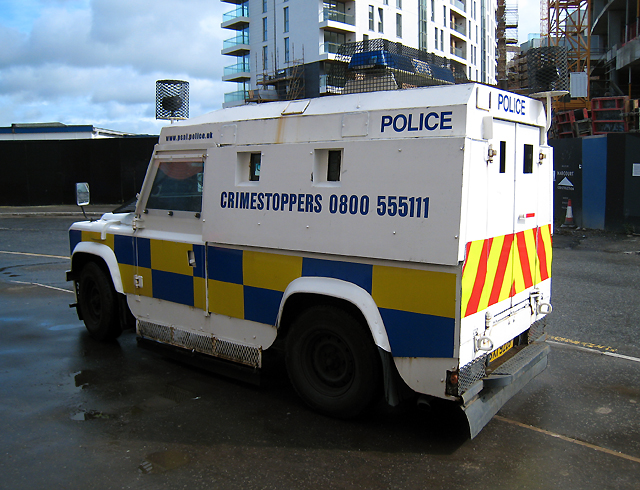 Police Land Rover, Belfast A Land Rover Tangi of the Police Service of Northern Ireland parked just off the Queen's Road near the Abercorn Basin. This is the last in a line of armoured vehicles used by the Police in Northern Ireland. They were common during the years of the 'Troubles' but most have now been decommissioned and it is more common for the police to use traditional vehicles in line with other forces in the UK & Ireland. All of the vehicles are now painted in white with the yellow and blue 'battenburg' markings rather than the infamous battleship grey. In the local vernacular the police land rover is often called a 'meat wagon' or even as a 'Newry ice-cream van'.